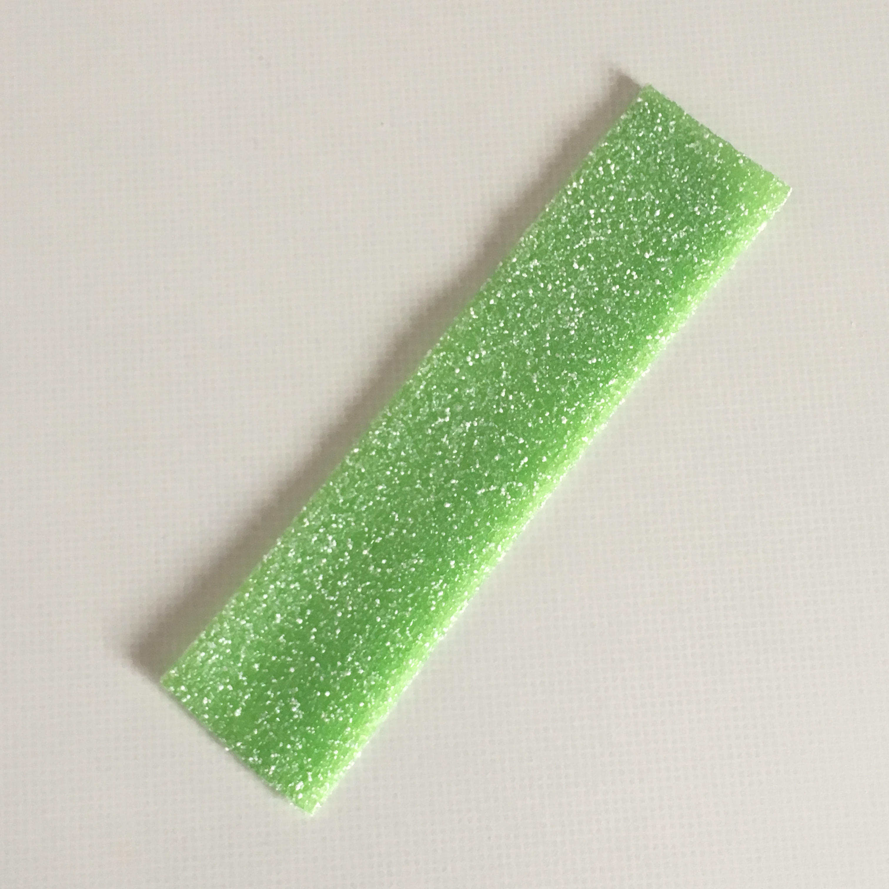 A green apple flavored HARIBO Sour Streamer